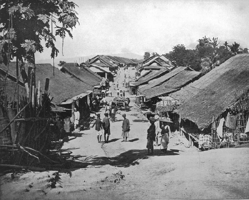 Curdi village, before being abandoned due to Selaulim Dam, Early 1920s